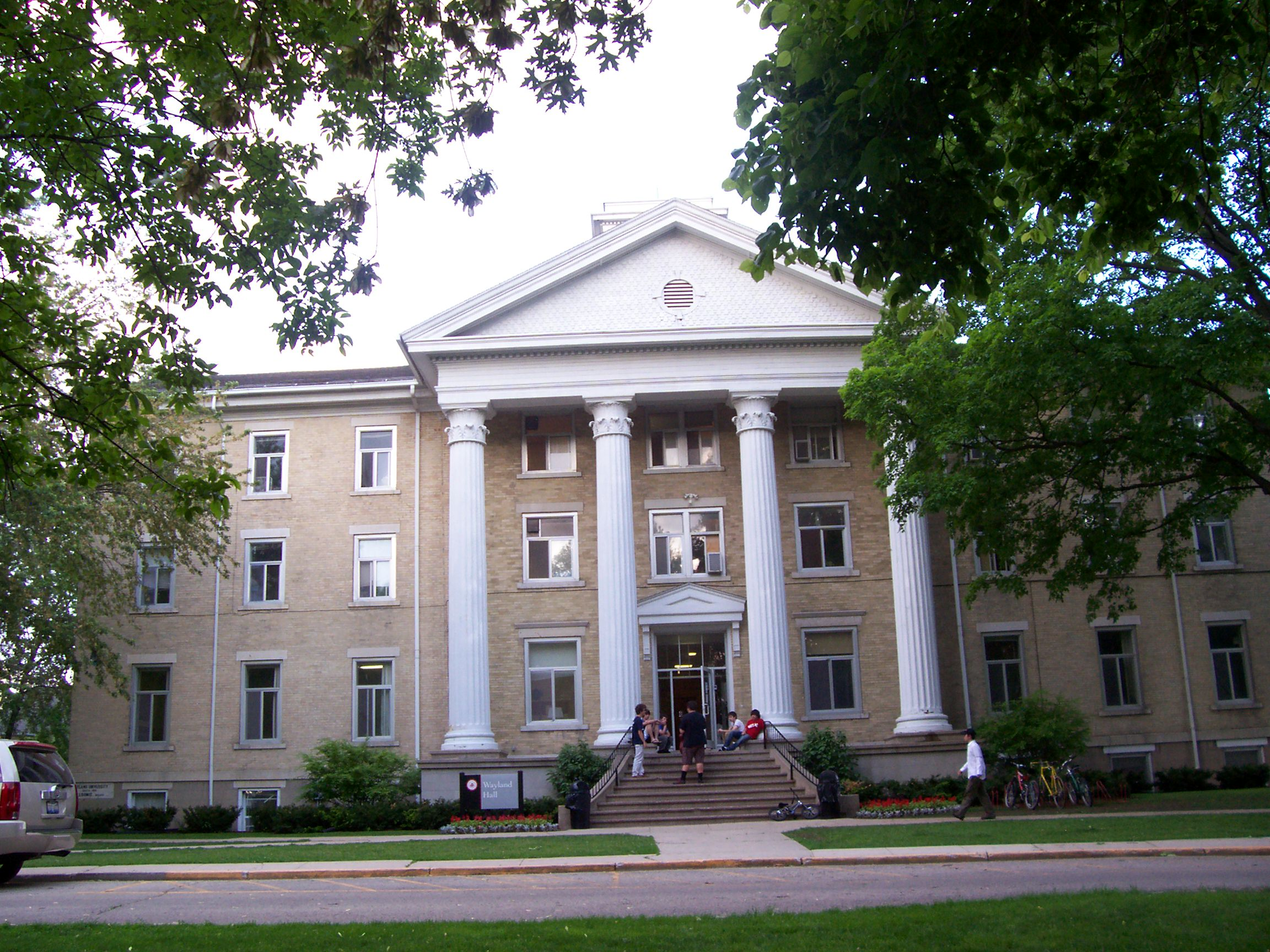 Wayland Hall at Wayland Academy in Beaver Dam, Wisconsin, U.S.